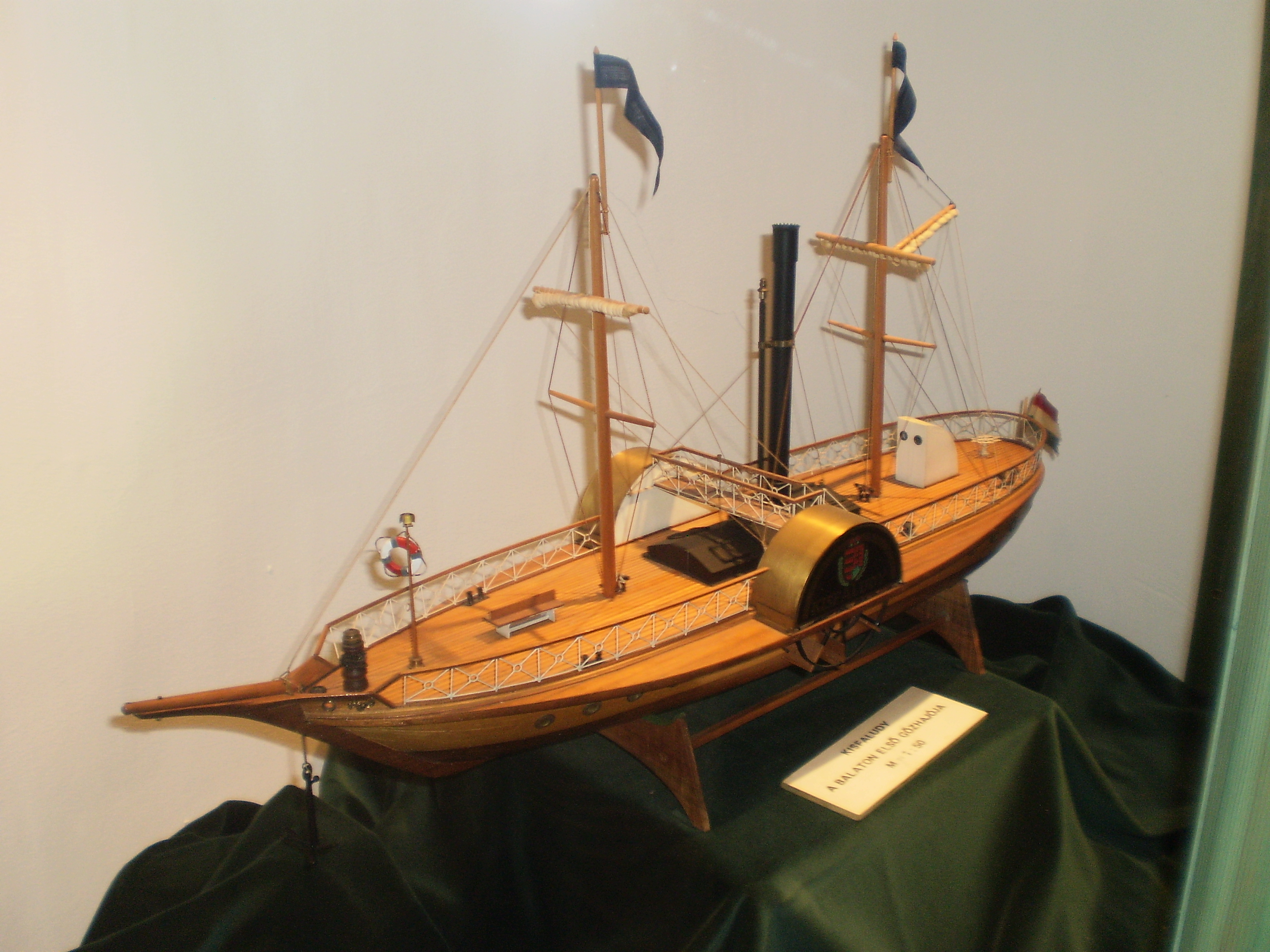 Kisfaludy model of the first steamboat on the Balaton, az Esztergom's Duna-museum, Hungary